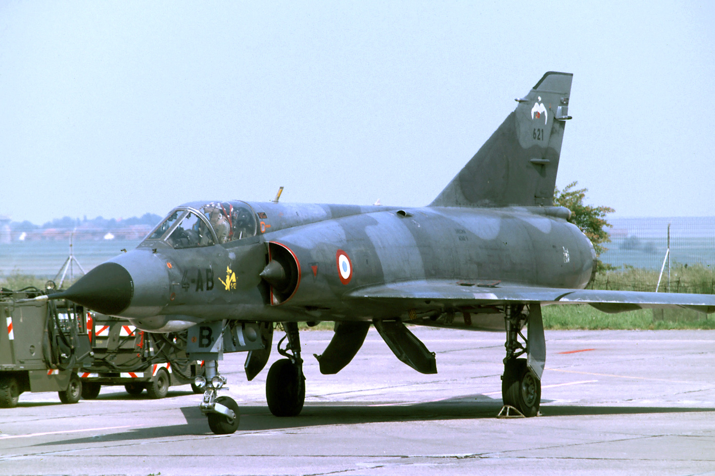 Mirage IIIE of EC1/4 (Luxeuil) on the flightline at Cambrai during the airshow in 1986. After its retirement this Mirage (621) was sold to Pakistan.